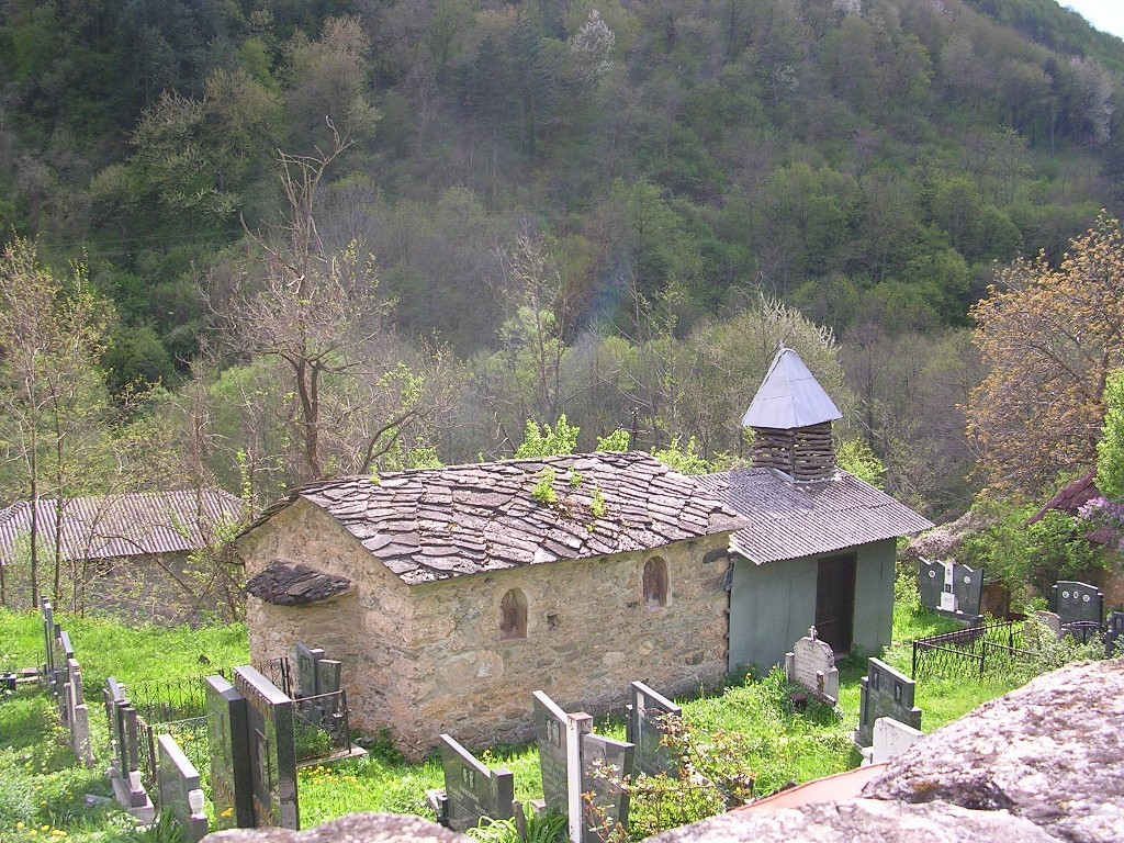 Northeastern look of Church of Saint Nicholas in Bogoševac near Prizren